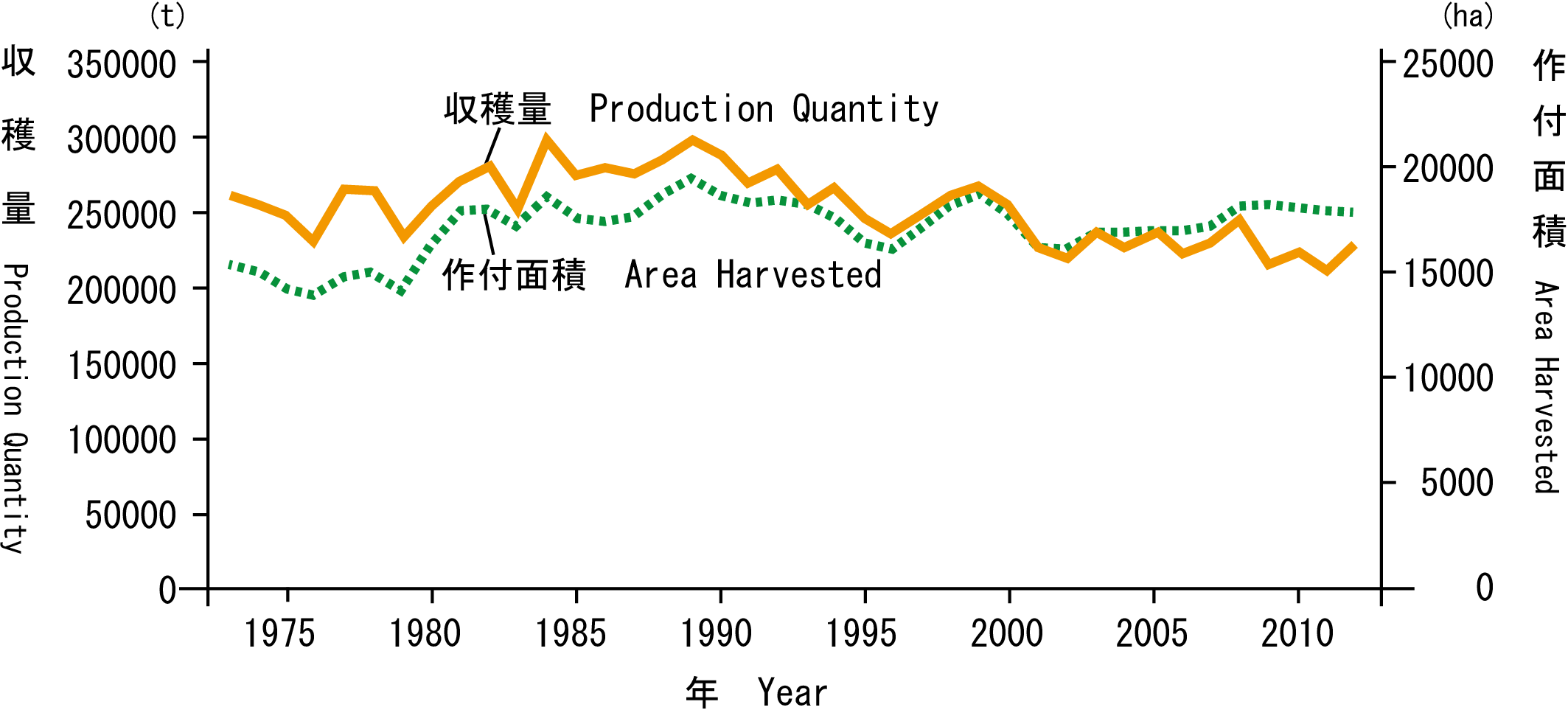 These graphs show production quantity and area harvested of pumpkins in Japan from 1973 to 2012. Data source is e-Stat, powered by Statistics Bureau, Ministry of Internal Affairs and Communications, Japan.